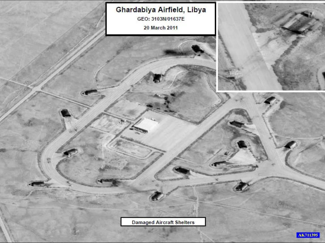 DOD News Briefing by Vice Admiral Gortney on Operation Odyssey Dawn. US-Military Image of Ghardabiya Airfield in Libya with damaged aircraft shelters, 20 March 2011.